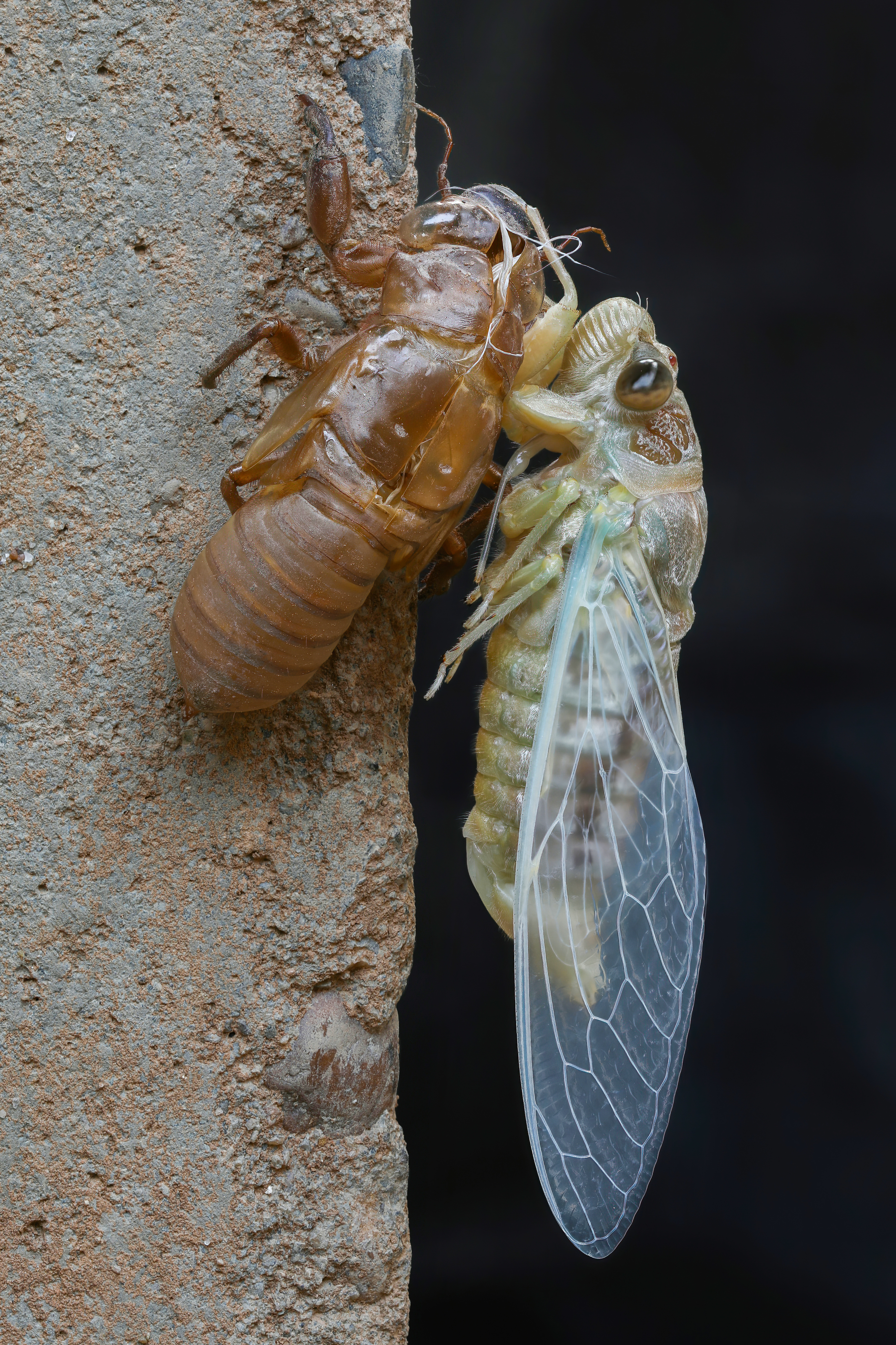 Cicadidae Dundubia (cicada) standing next to its exuvia, immediately after moulting, side view. Seen on the island of Don Det, Si Phan Don, Laos. Focus stacking from 8 pictures. The body (without wings) measures approximately 35 mm (1.4 in). The species could be Dundubia jacoona (Distant, 1888) or Dundubia oopaga (Distant, 1881), difficult identification since the colors are not yet definitive.